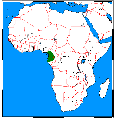 African Pygmy Squirrel (Myosciurus pumilio) range map, made by me with help of Map depending on the range map at IUCN red list.